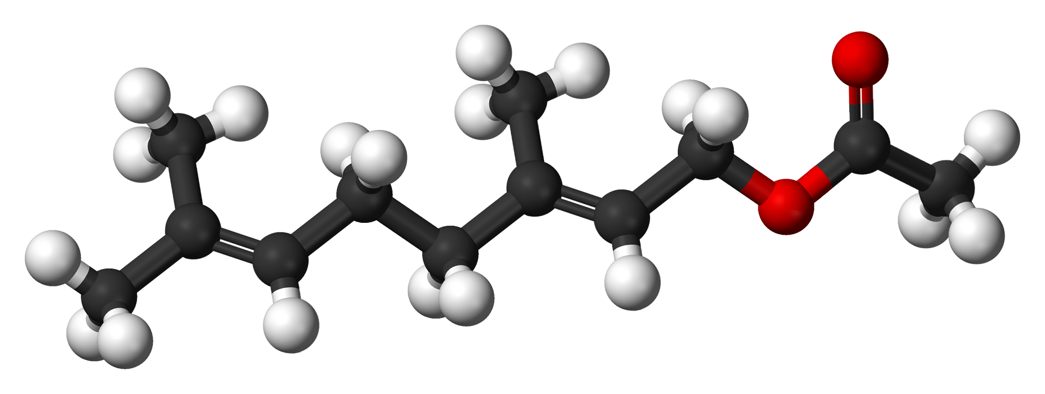 Ball-and-stick model of the geranyl acetate molecule, the ester of geraniol and acetic acid, a constituent of various essential oils.